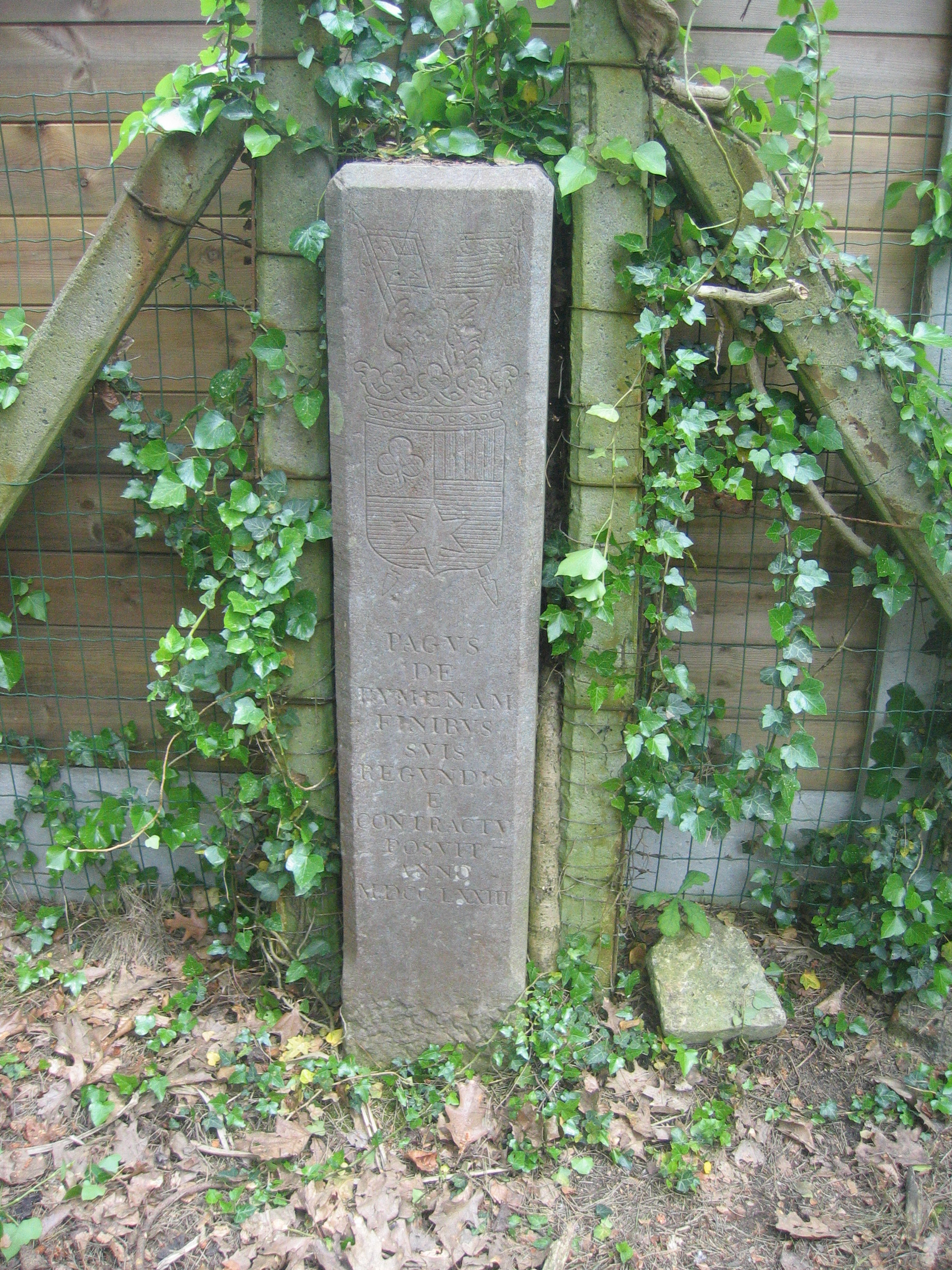 Picture of the "Grote Paal"